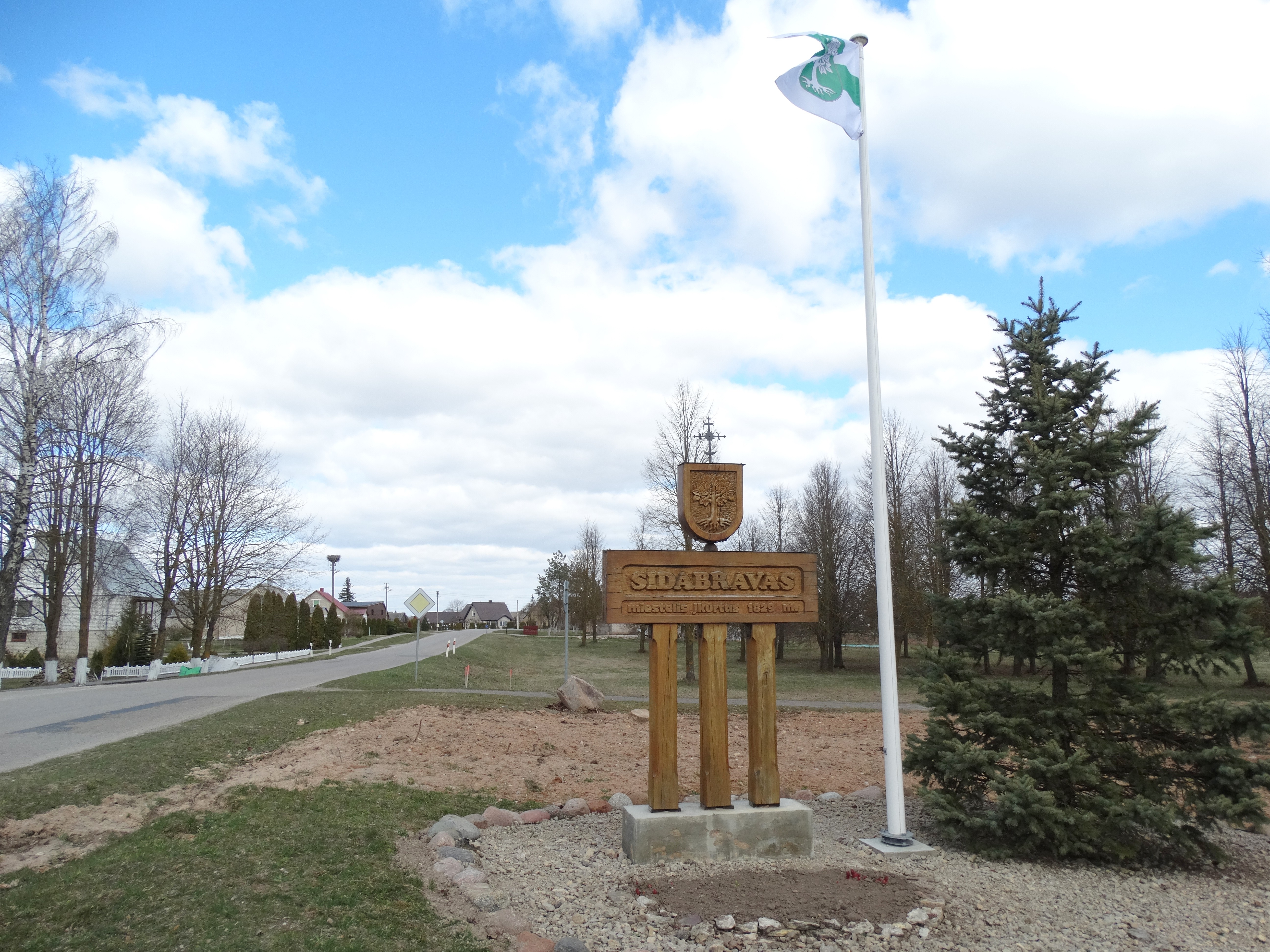 Sidabravas, Radviliškis District, Lithuania